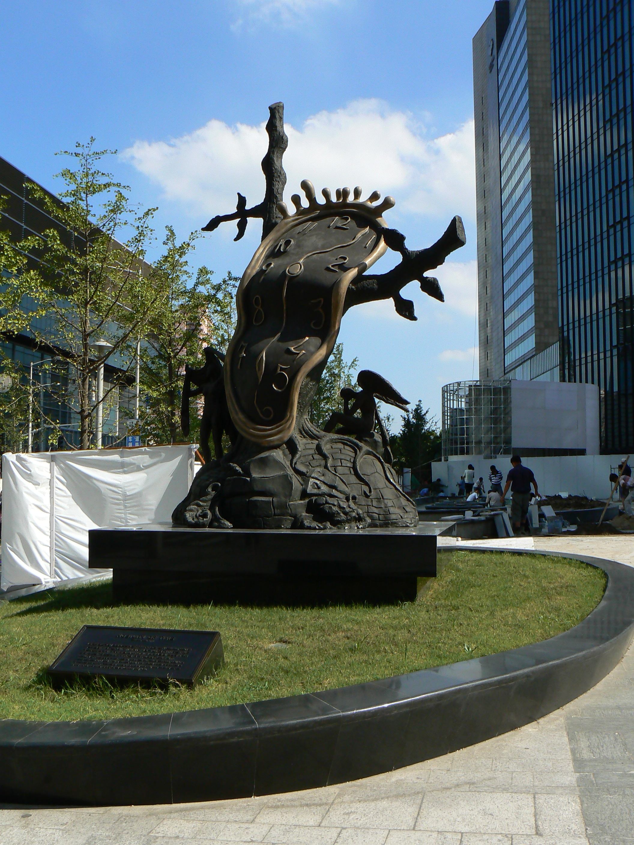 The Shanghai copy of Salvador Dalí's sculpture "Nobility of Time" (1977). The inscription in front of it reads: "Nobility of Time" is a bronze piece by the great surrealist Salvador Dalí. It is made between 1977 and 1984 in Switzerland. The melted watch is crowned to symbolize the omnipresence of time. It is one of the only two existing copies in the world, the other is displayed at London City Hall."